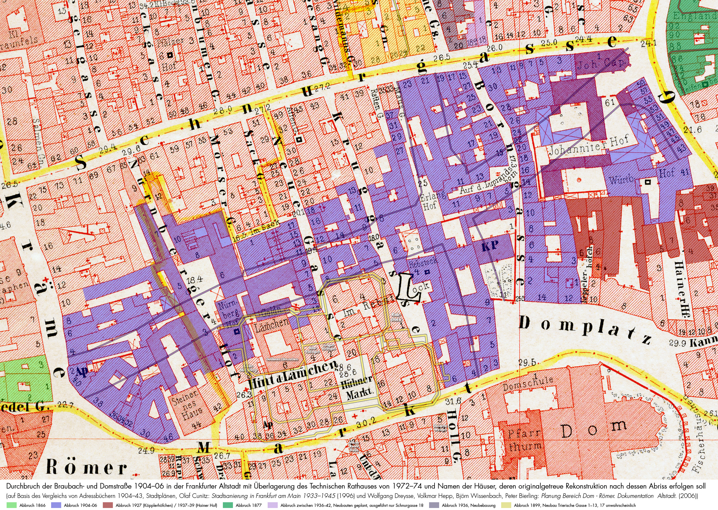 Frankfurt on the Main: Street opening of the Braubach- and the Domstraße 1904–1906 in the old town with overlay of the Technisches Rathauses (technical town hall) of 1972–74 and names of the houses, whose reconstruction shall commence after its demolition